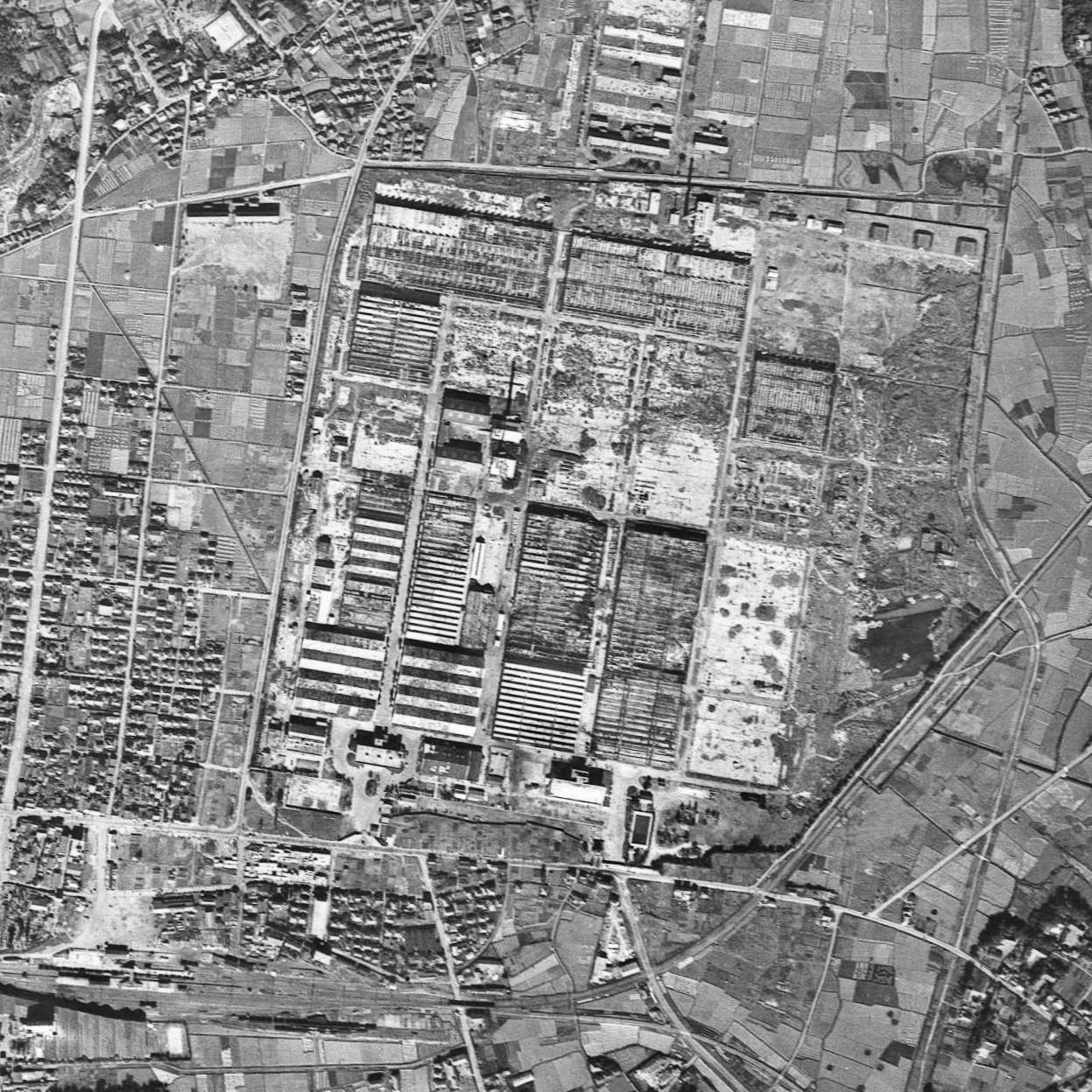 Subaru-cho, Ōta, Gunma.